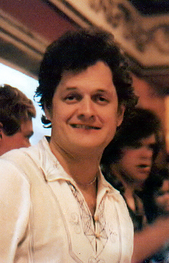 Harry Chapin after his concert at the Paramount Theater, Austin, Texas, United States.